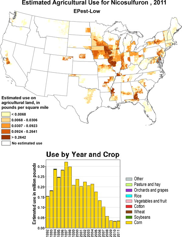 Nicosulfuron map of use, USA, 2011 (estimated)